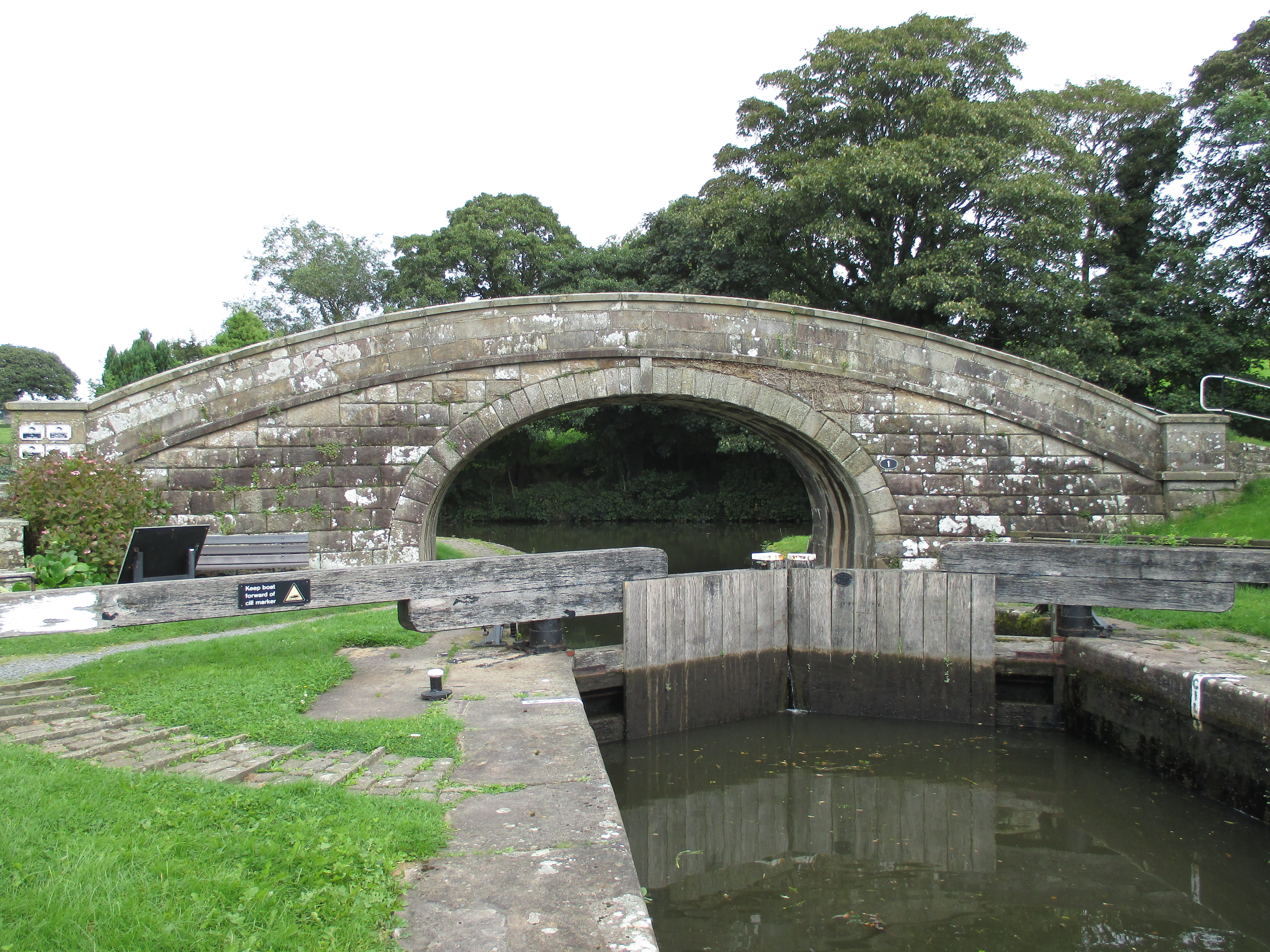 Junction Bridge, bridge 1 of the Glasson branch of Lancaster Canal, half a mile south of Galgate, Lancashire. Directly behind the bridge is the intersection with the main Lancaster Canal.